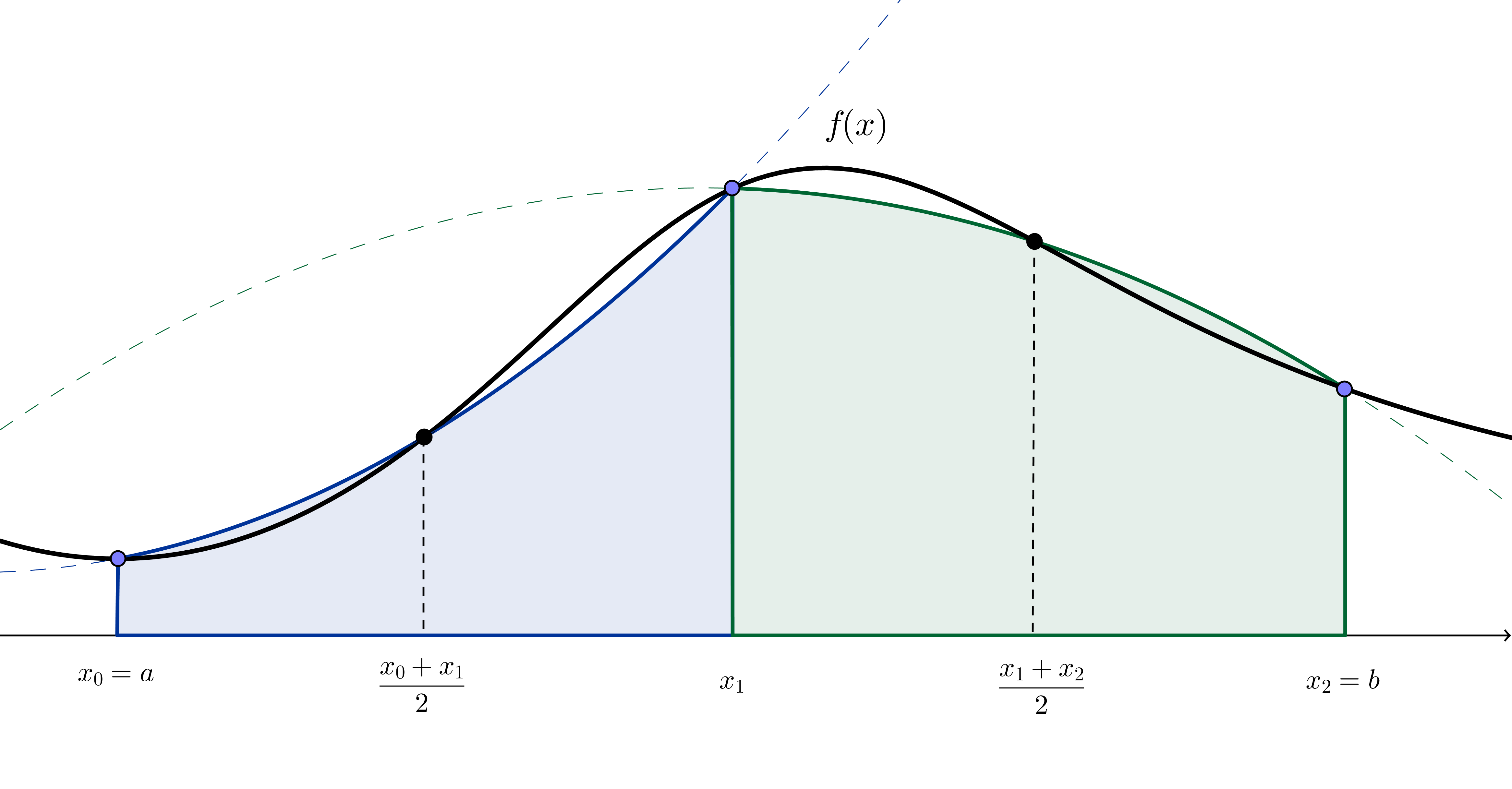 Illustration of the composite simpson's rule for numerical integration